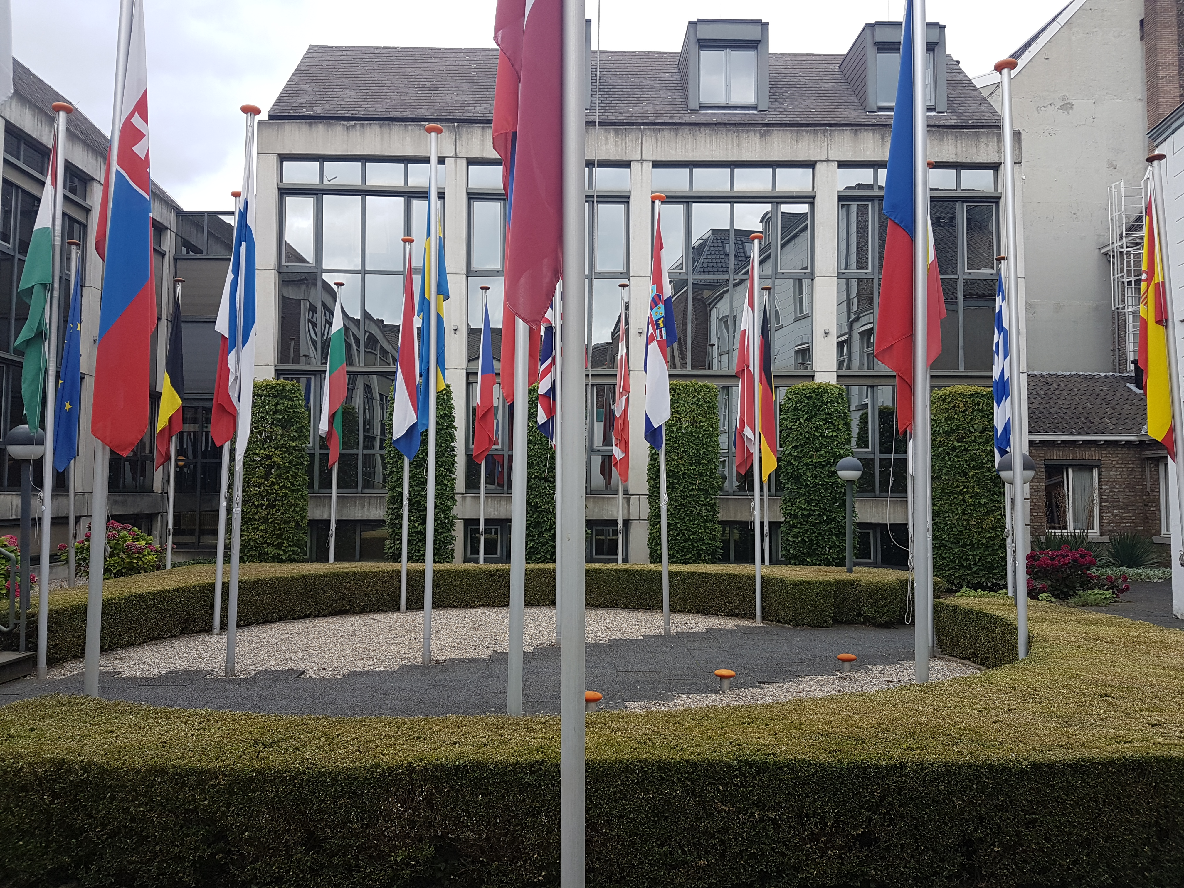 Courtyard of the European Institute of Public Administration (EIPA) in the centre of Maastricht, the Netherlands.